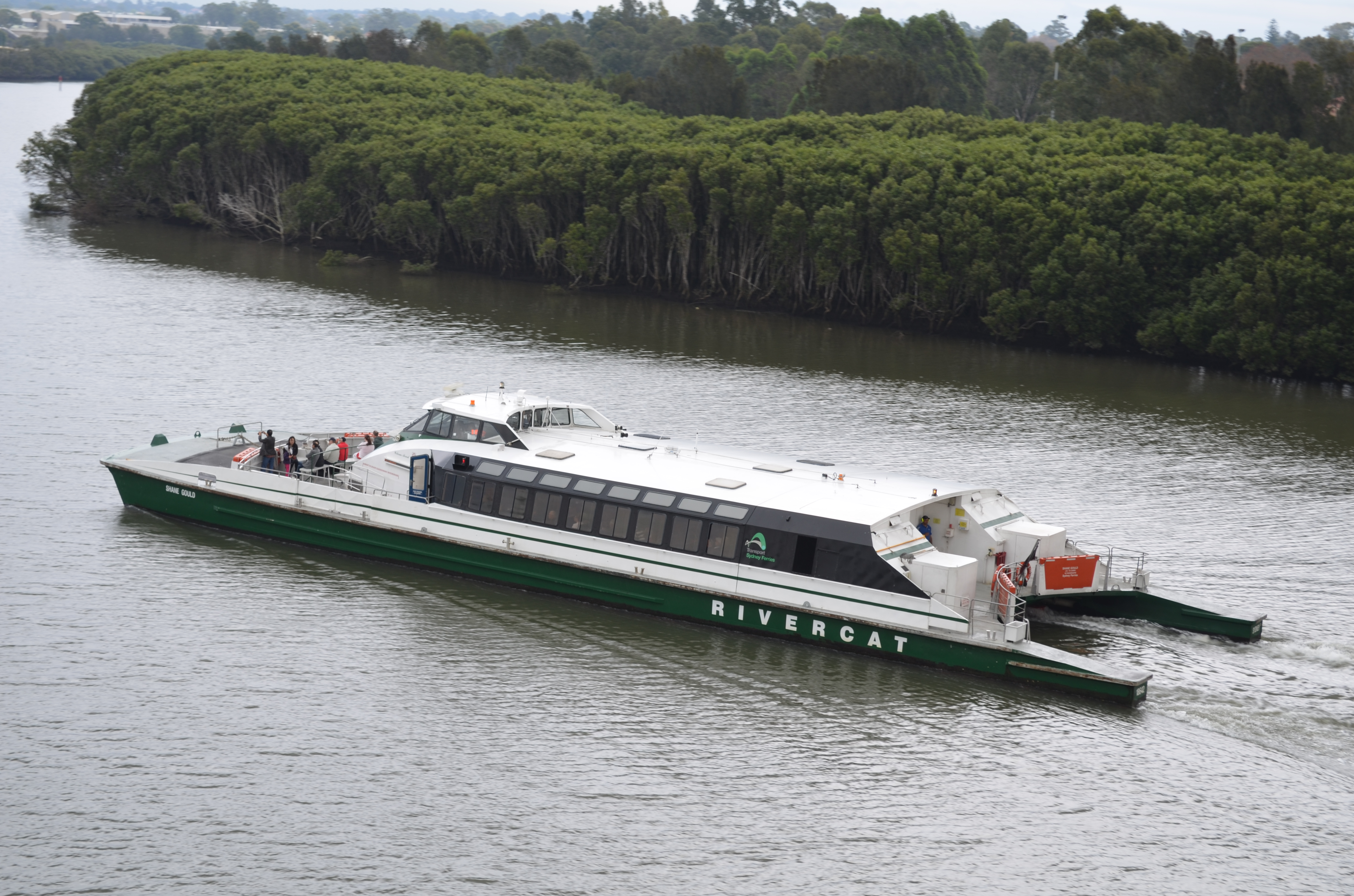 The Sydney Ferries Rivercat Shane Gould heading up the Parramatta River to Parramatta. The ferry has just passed under the Silverwater Bridge